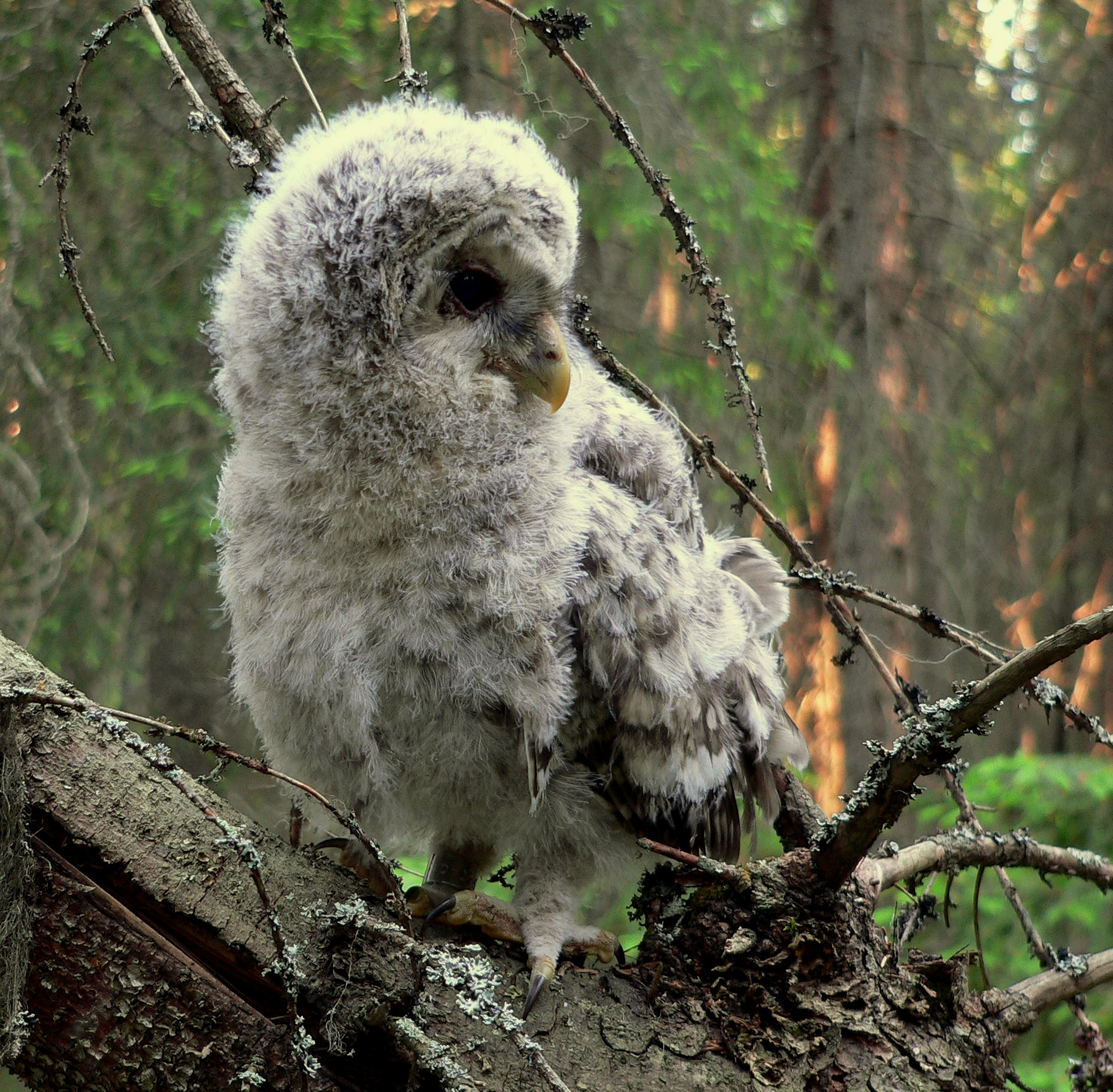 Ural owl (Strix uralensis) chick (Ästling); western Finland